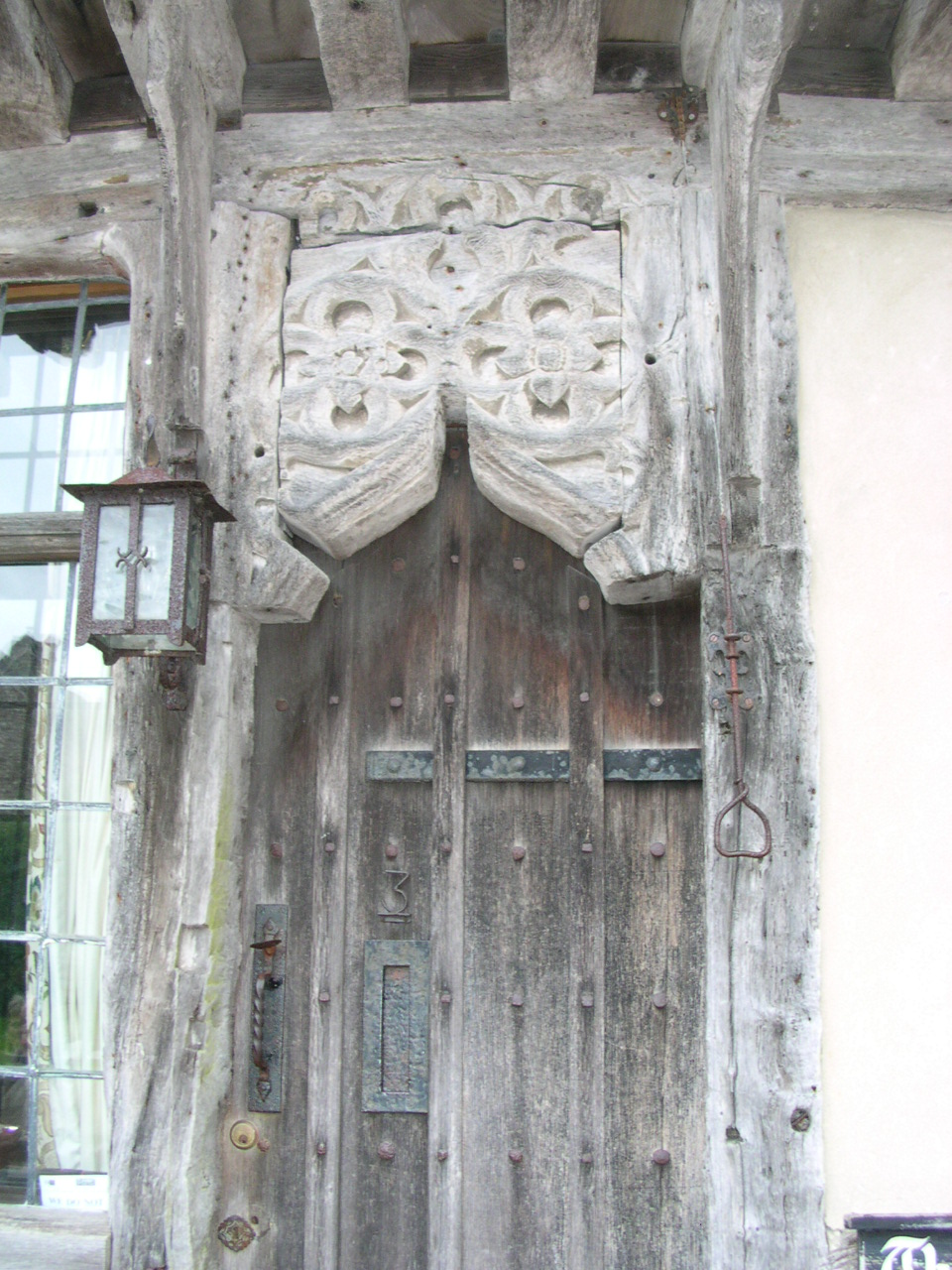 An old doorway near the church in Cerne Abbas, Dorset, England.